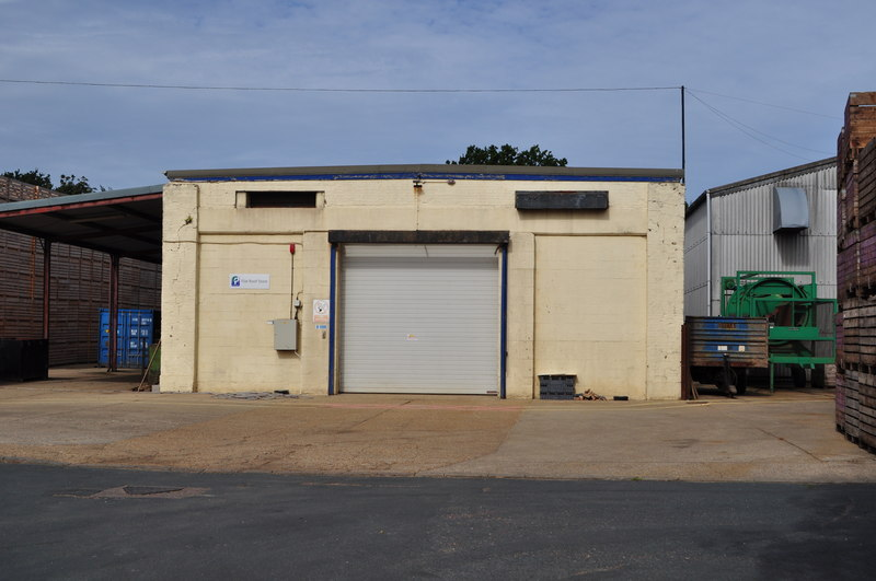 Melton Constable Engine Shed, near to Melton Constable, Norfolk, Great Britain. A view of the 1951 engine shed, once home to flying pigs and J17s. Built on the site an earlier M&GN shed. See my article on the works Link and another on the station Link . Must See link Link